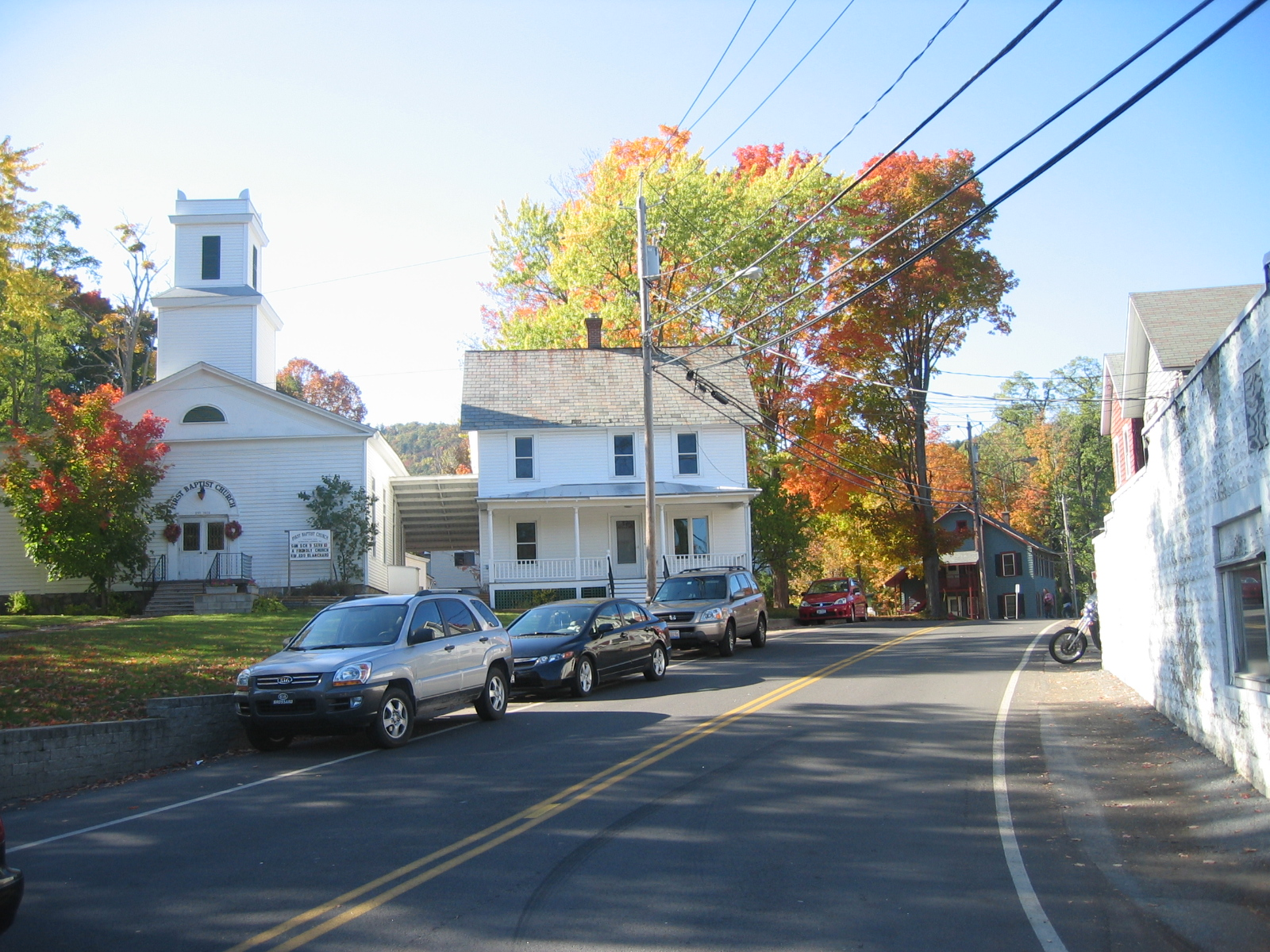 Church in Bolton Landing, NY.